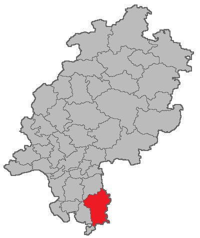 Map of the district court Michelstadt in Hesse